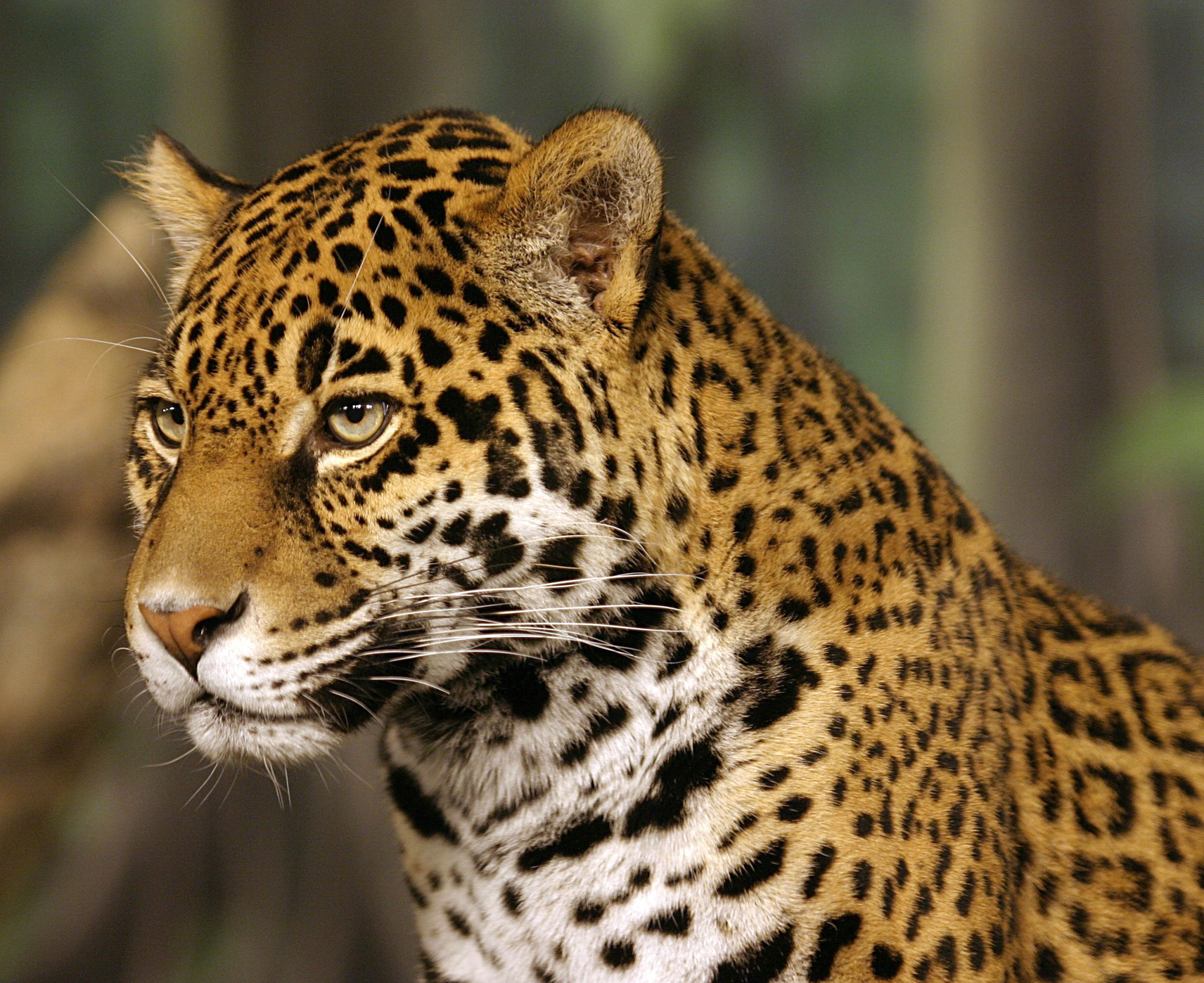 A portrait of a jaguar (Panthera onca) at the Milwaukee County Zoological Gardens in Milwaukee, Wisconsin.